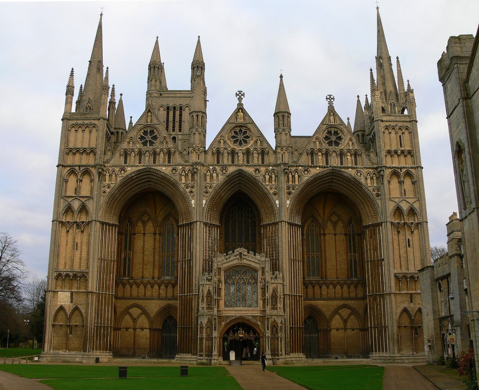 Front of Peterborough Cathedral